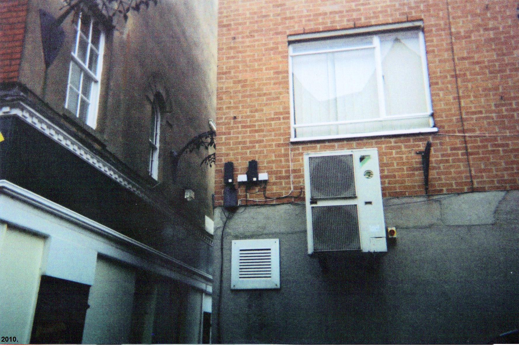 I took the picture of Daikin Air conditioning unit my self at a Banbury shopping mall in the year 2010. I here by release it in to the public domain.